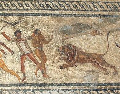 The execution of the Garamantes in the Amphitheater of Lepcis Magna